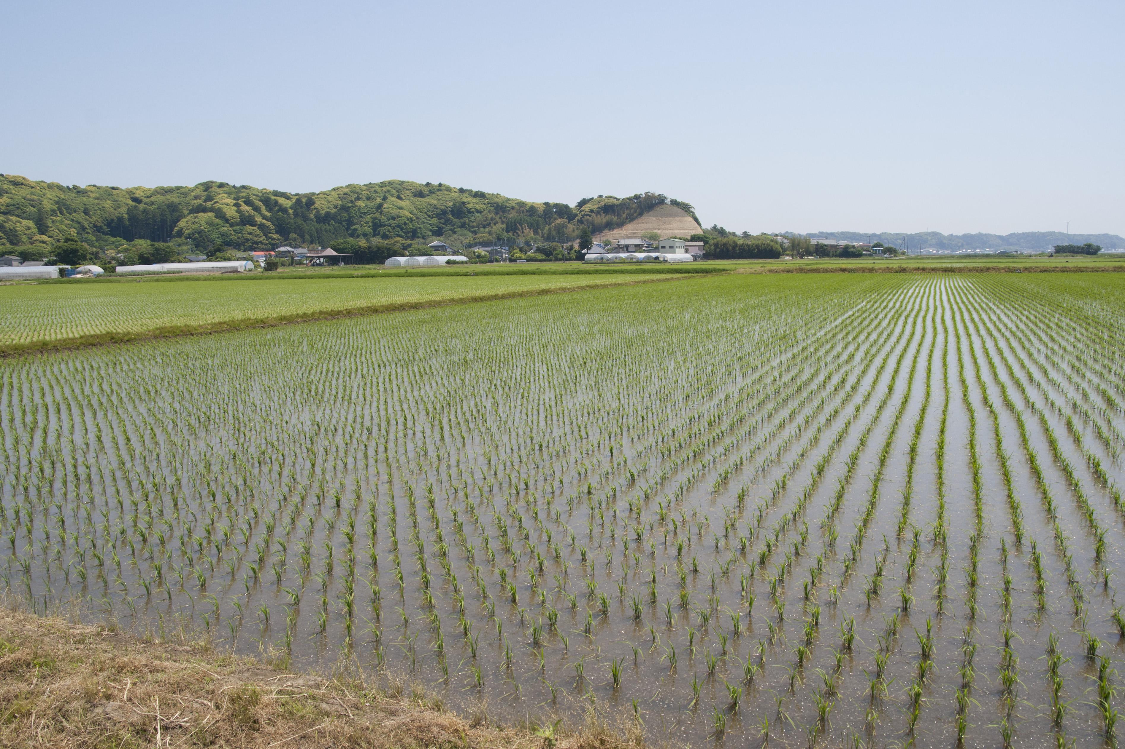 Paddy field in Tonosho Town, Chiba Pref., Japan